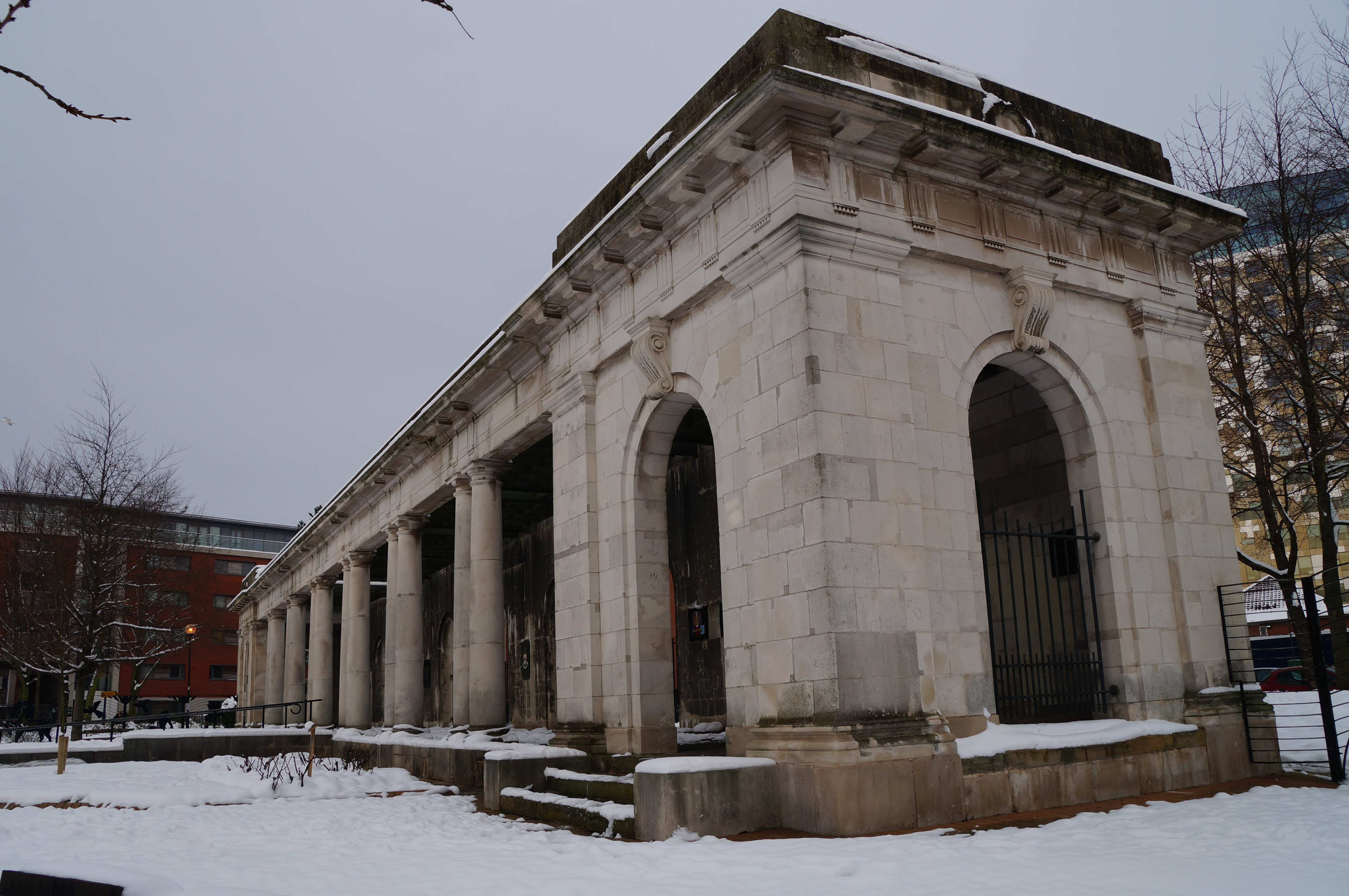 Colonnade, formerly part of the 1925 Hall of Memory on Broad Street. Now moved and forming part of the St. Thomas' Peace Garden. Birmingham, England.